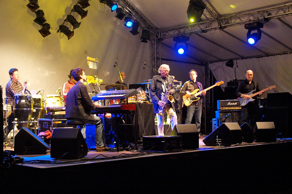 Klaus Doldingers Passport, Offside Festival 2008, Geldern/Germany left to right: Ernst Stroer - Biboul Darouiche - Christian Elsässer - Christian Lettner - Klaus Doldinger - Patrick Scales - Peter O’Mara